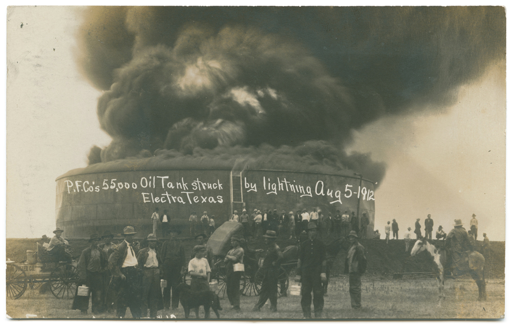 Title: P. F. Co.'s 55, 000 Oil Tank struck by lightning Aug. 5, 1912, Electra, Texas Date: ca. 1912 Part Of: Collection of real photographic postcards of Texas Place: Electra, Wichita County, Texas Physical Description: 1 photographic print (postcard) File: ag2005_0001_03_087_c_electra_opt Rights: Please cite DeGolyer Library, Southern Methodist University when using this file. A high-resolution version of this file may be obtained for a fee. For details see the web page. For other information, . For more information, View Texas: Photographs, Manuscripts, and Imprints